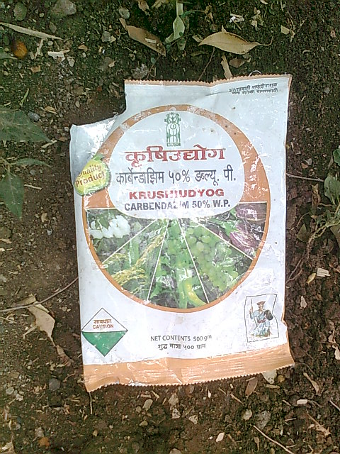 Krushiudyog fungicide for turmeric plantation at Chinawal village, India